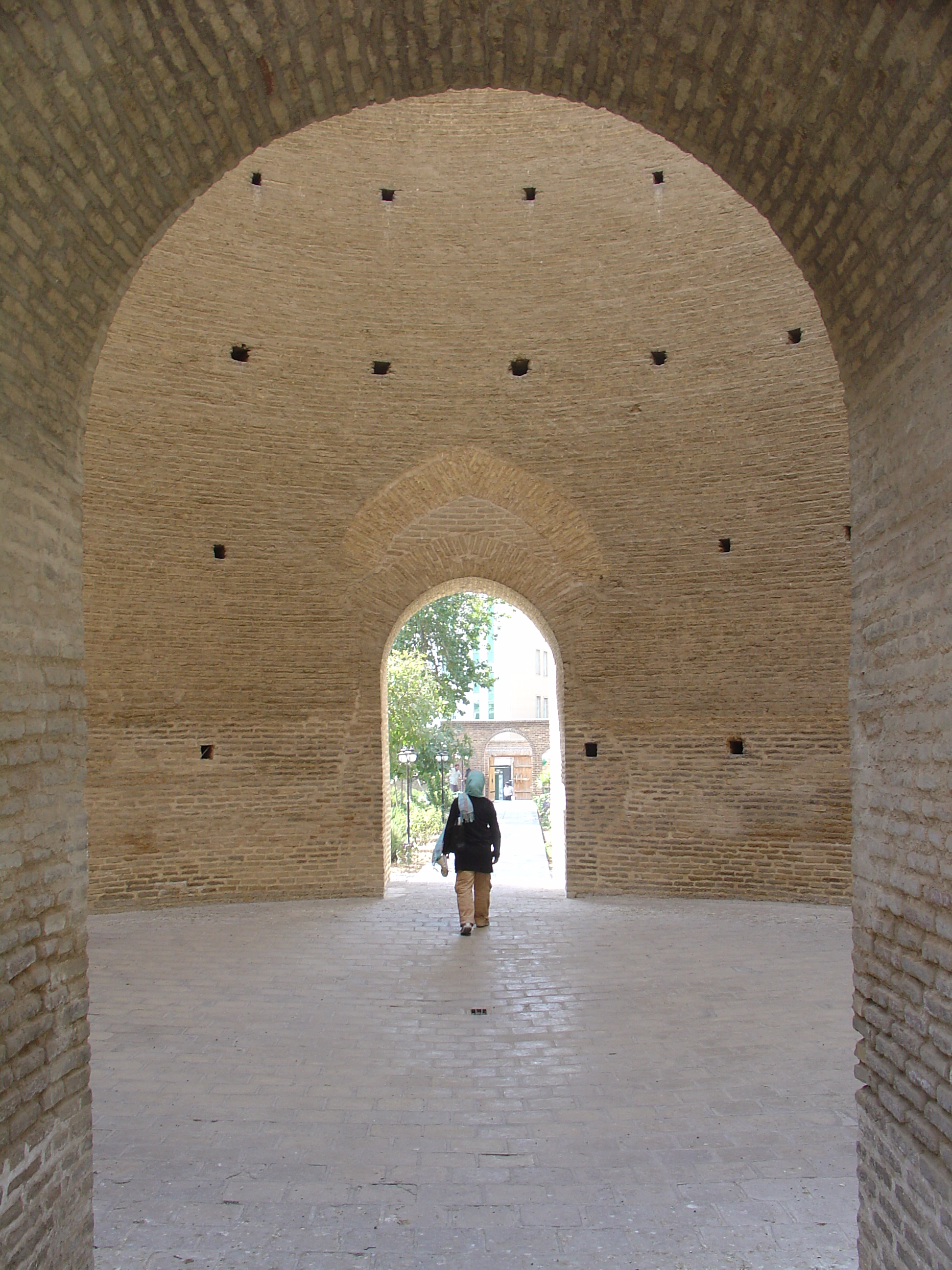 Portal and interior of Toghrul Tower, Ray, Iran. 12th century tomb of Seljuk ruler Toğrül.